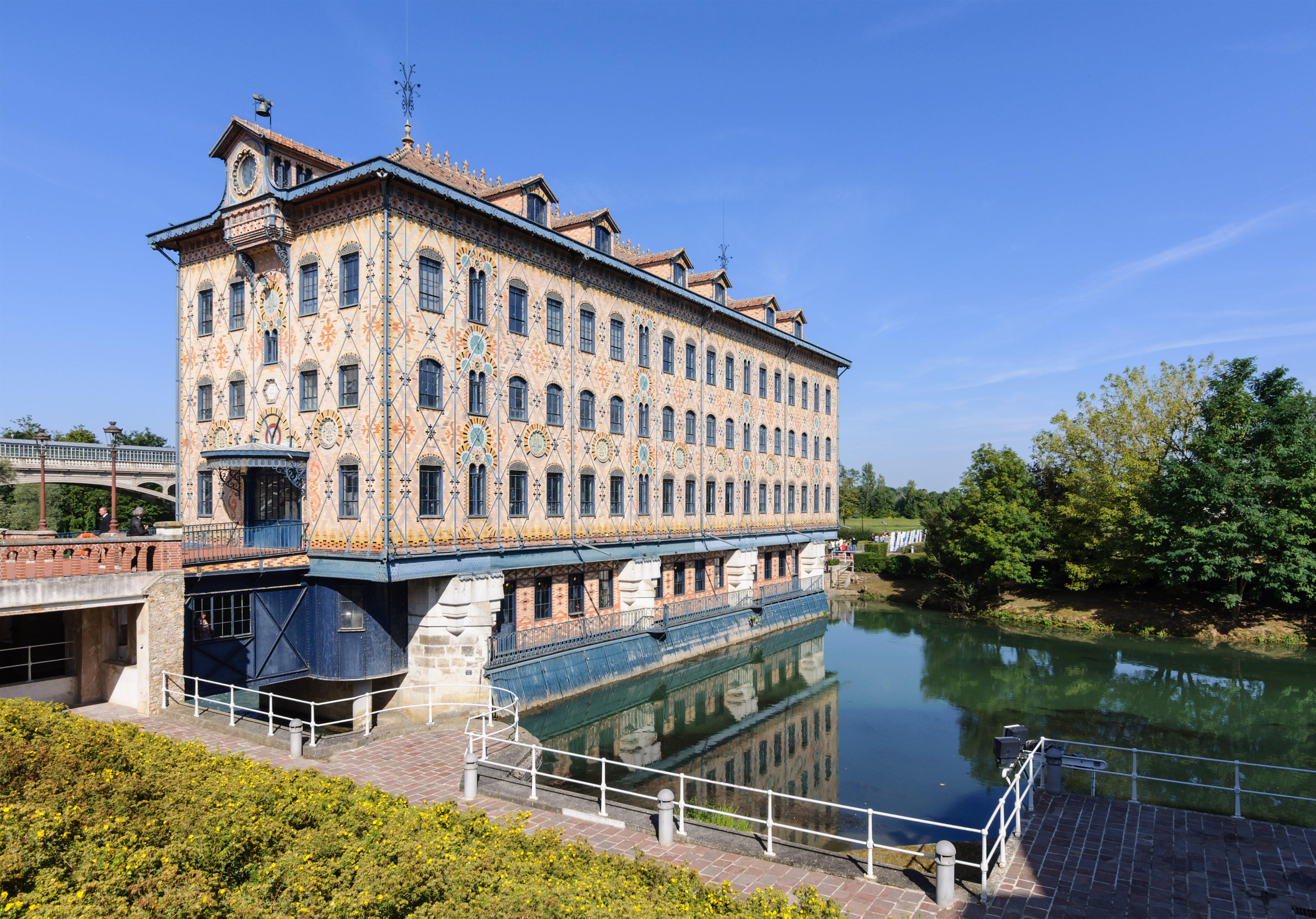 Former Menier chocolate factory in Noisiel, Seine-et-Marne, France: the watermill designed by Jules Saulnier (1872) on the Marne river.